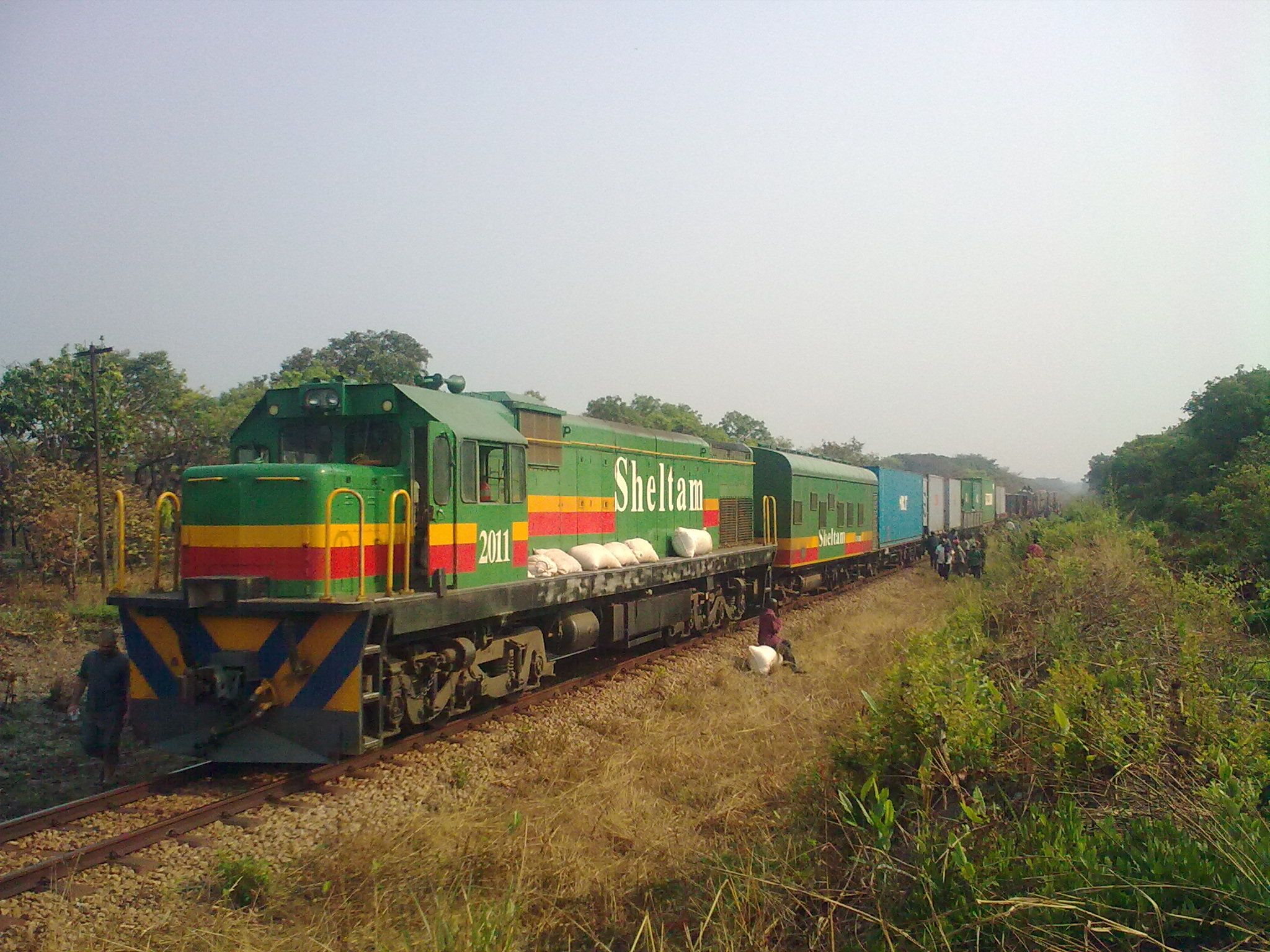 Ex-SAR 33-200 locomotive now owned by Sheltam and doing duty in DRC for SNCC Picture taken near Kamina, DRC